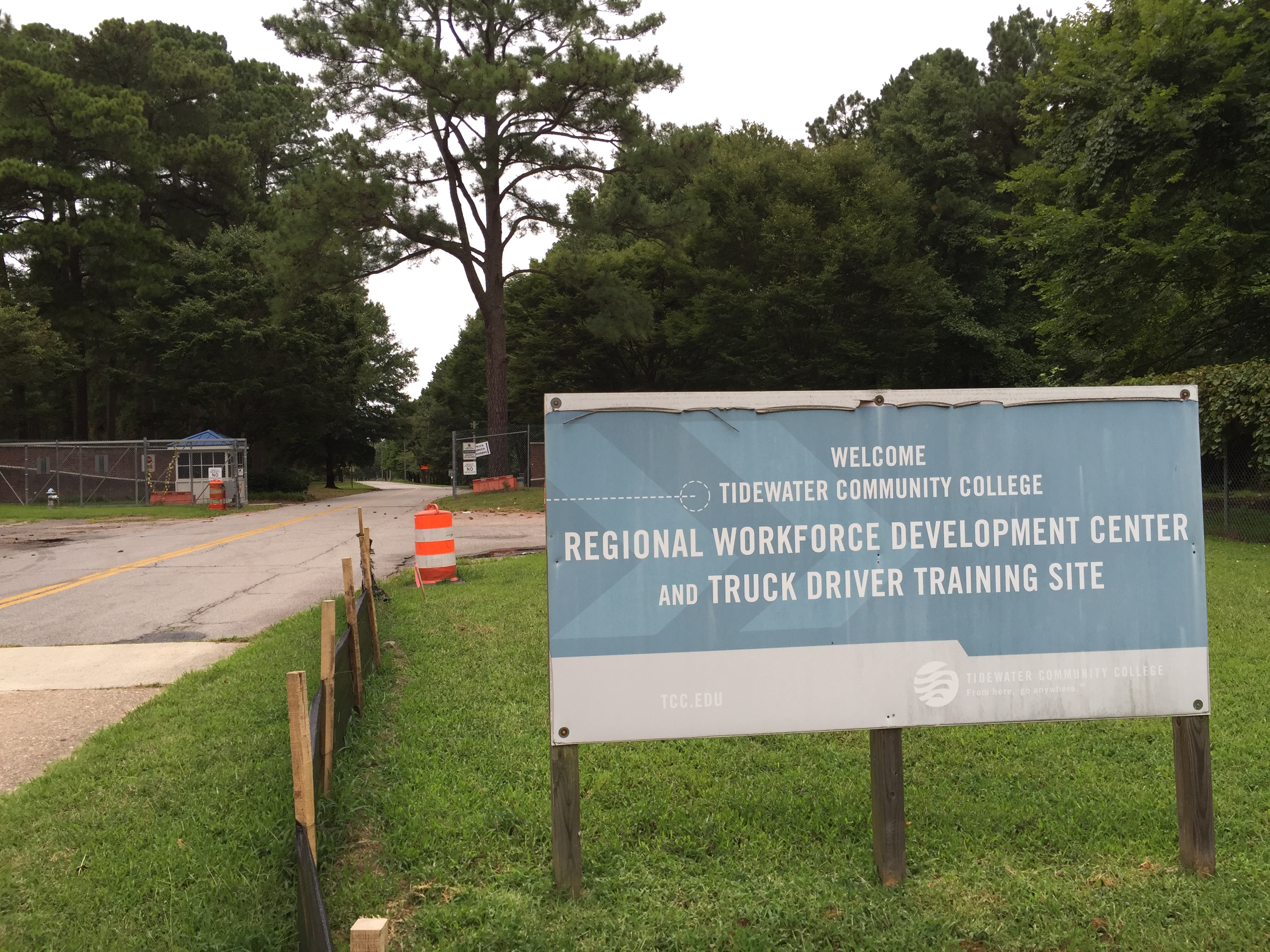 View north along Virginia State Route 367 (College Drive) at Club Drive, entering the campus of the Tidewater Community College's Regional Workforce Development Center and Truck Driver Training Site in Suffolk, Virginia